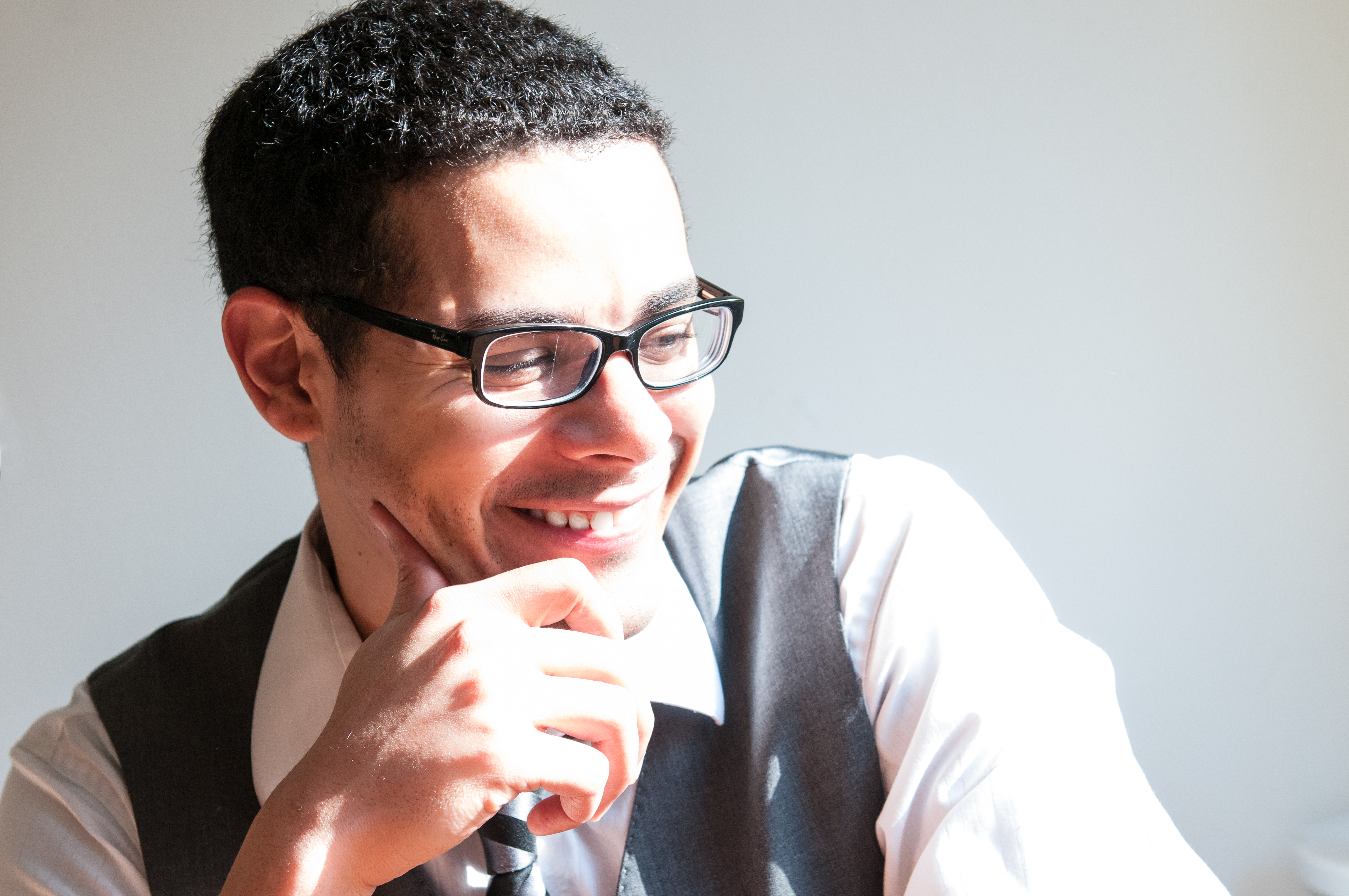 author photo of American poet Geffrey Davis, taken January 2013